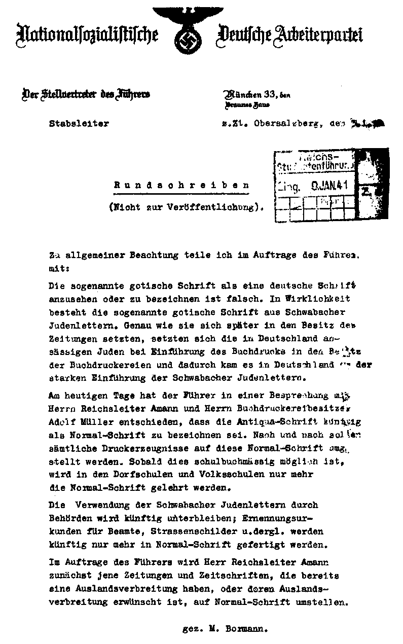 Order (Schrifterlass) from the Führer Adolf Hitler to change typeface from Schwabacher Fraktur to Antiqua in the Third Reich 1941.